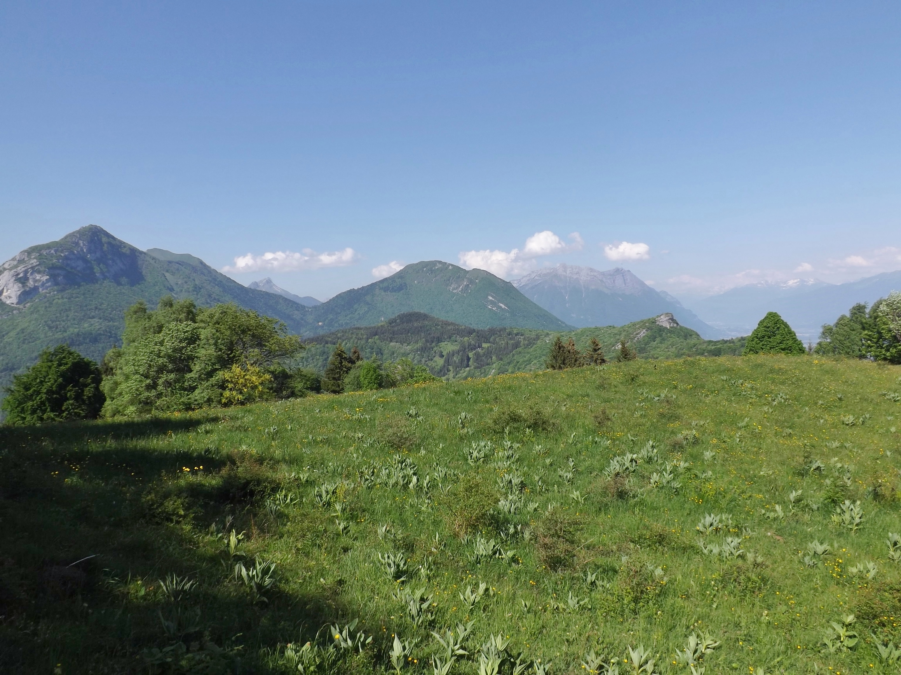 Panoramic landscape from the Southern Bauges mountain range, on the French commune of La Thuile, near Chambéry in Savoie.